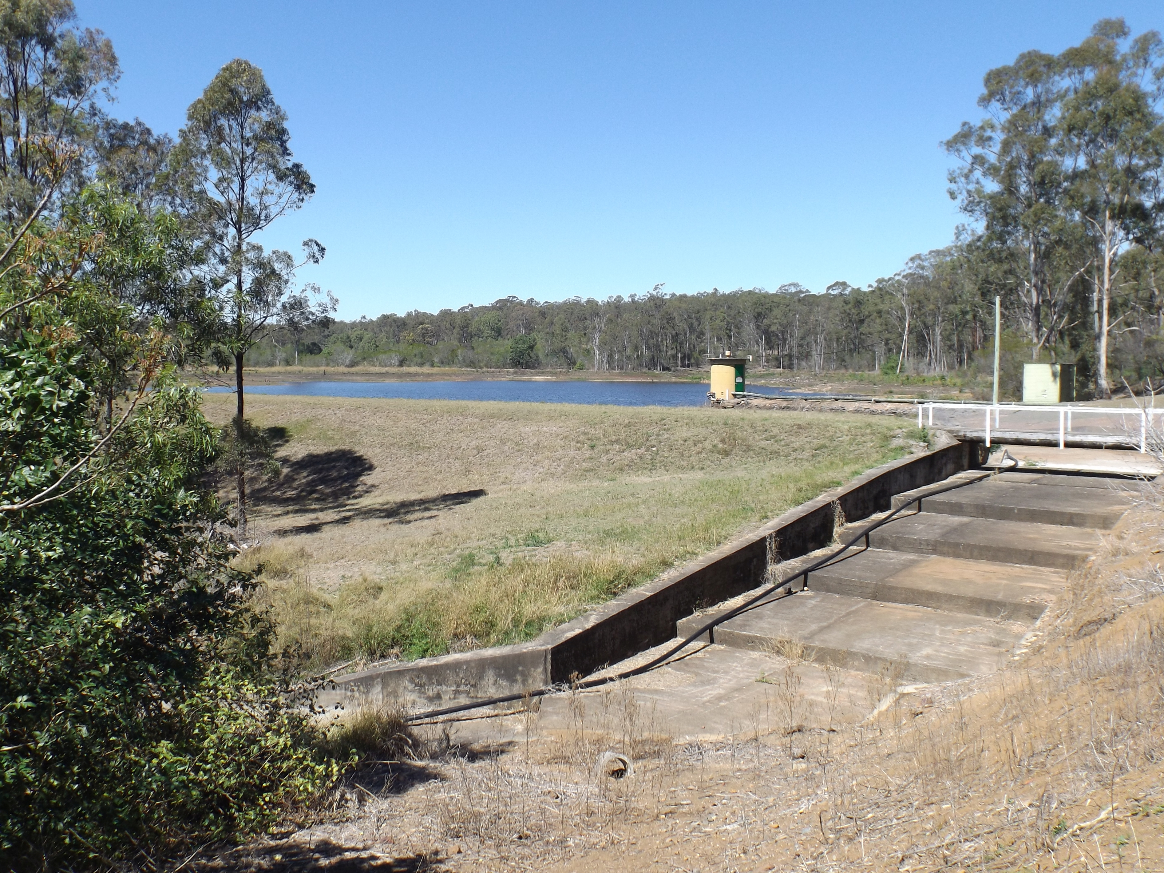 Photo of Nindooinbah Dam wall and spillway at Beaudesert, Scenic Rim Region, Queensland, Australia.